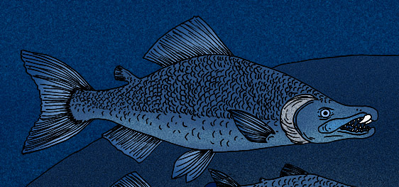 Crop of file in filename